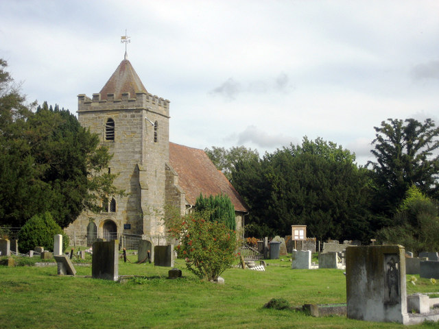 Saint Thomas Becket Church, Church Lane, Capel, Kent